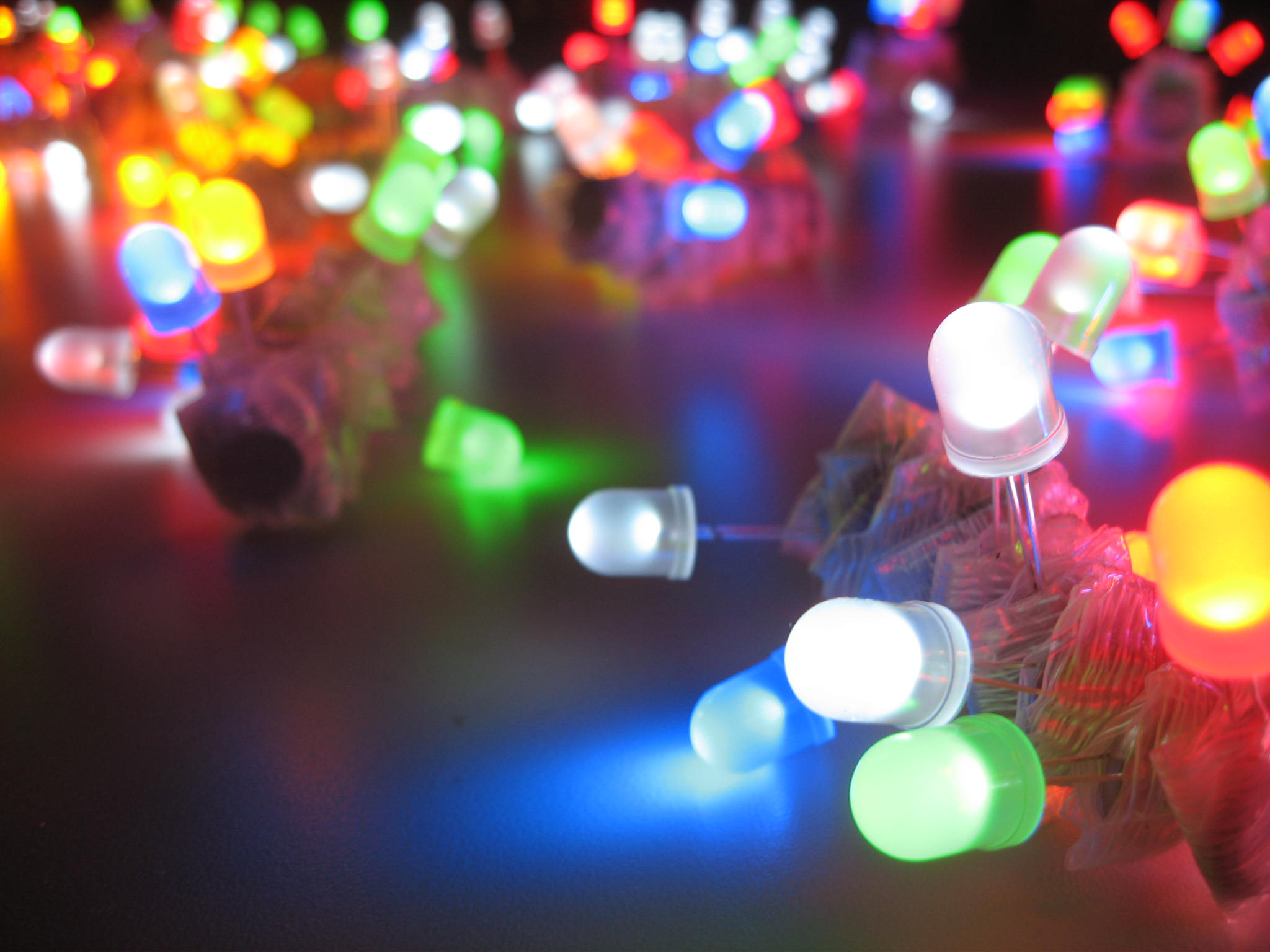 GRL Graffiti research Lab Rows of Led Throwies Removed from the following pages: LED throwie --OrphanBot 08:38, 6 June 2006 (UTC)